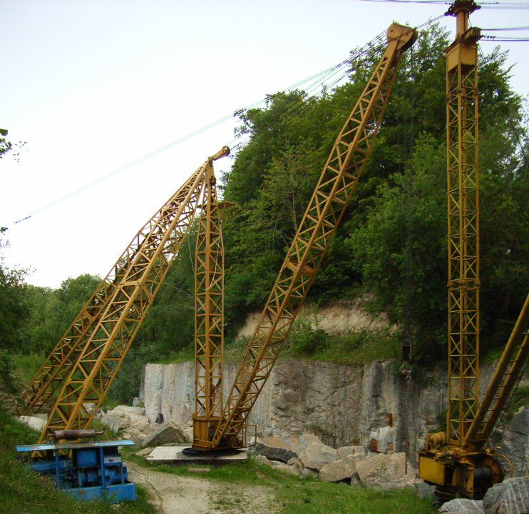 two Derrick cranes (Vaud, Switzerland)